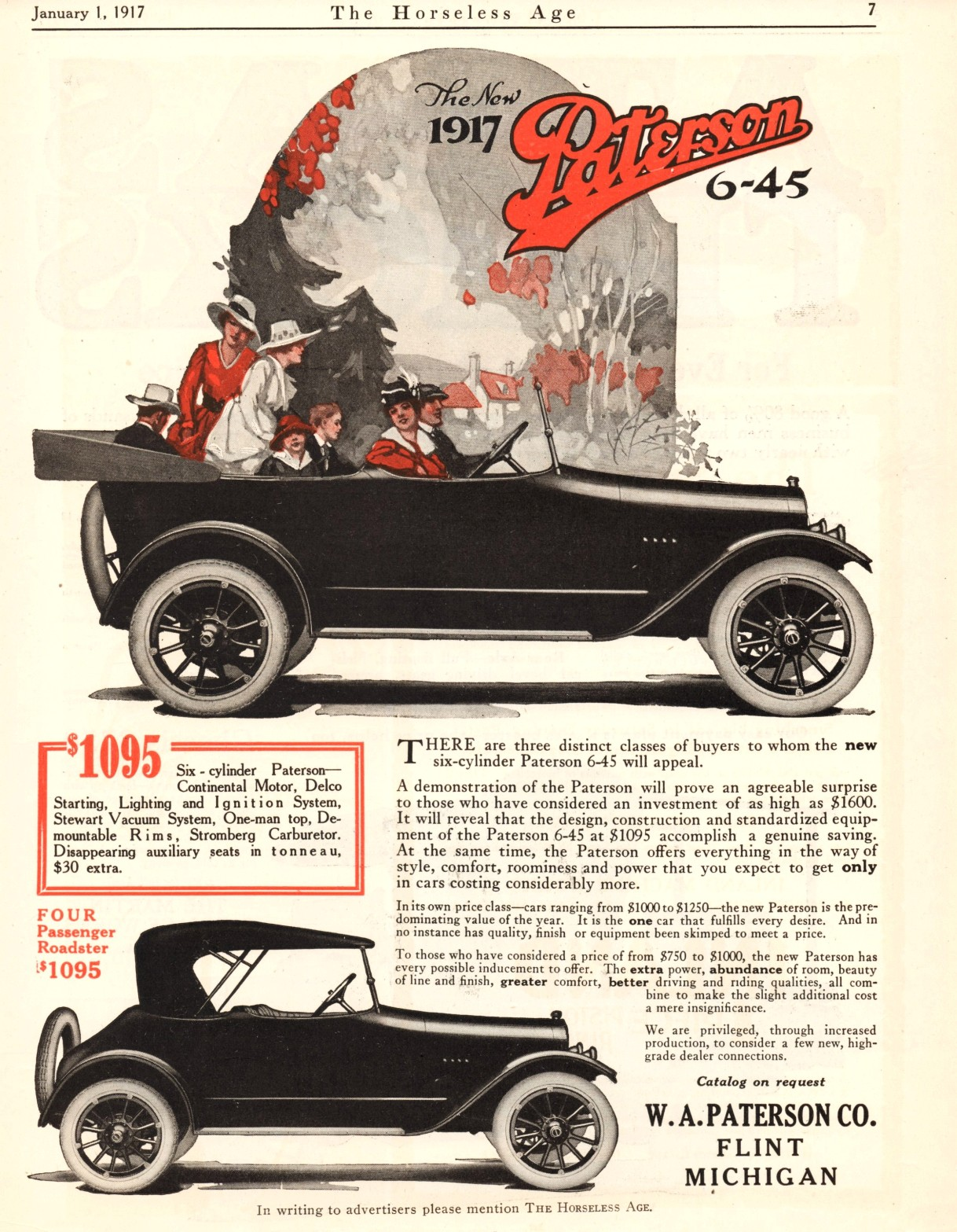 1917 Paterson 6-45 Touring Car ad. The Paterson was built in Flint, Michigan from 1908 until 1923.